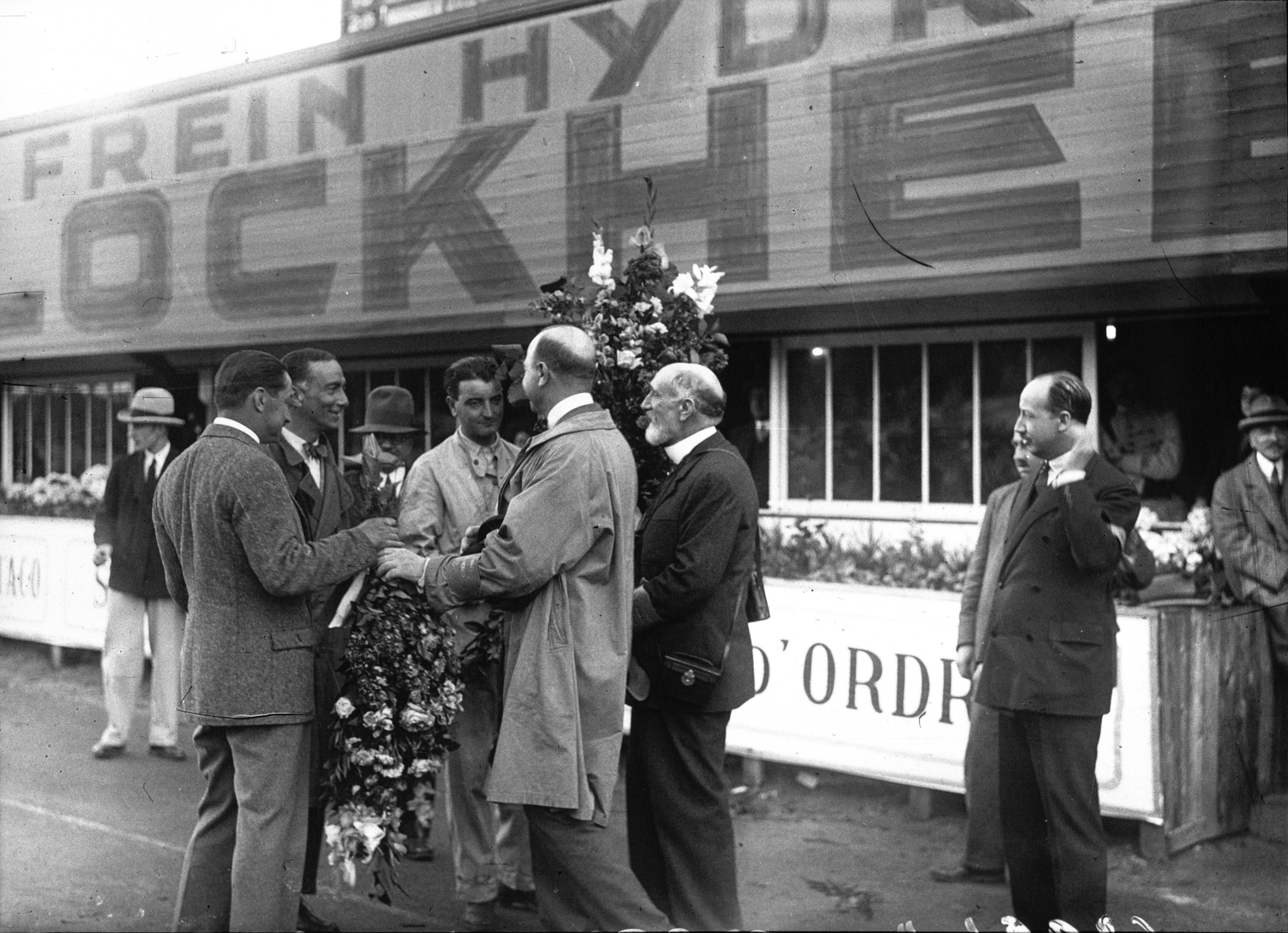 William Grover-Williams, André Boillot and Caberto Conelli at the 1929 French Grand Prix